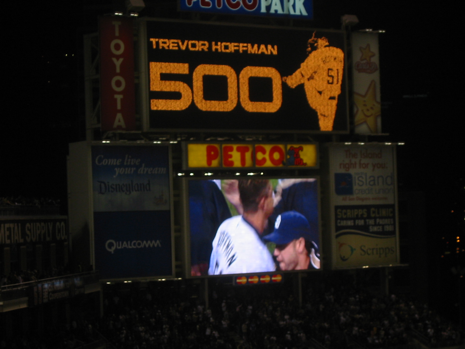 Trevor Hoffman after his 500th save